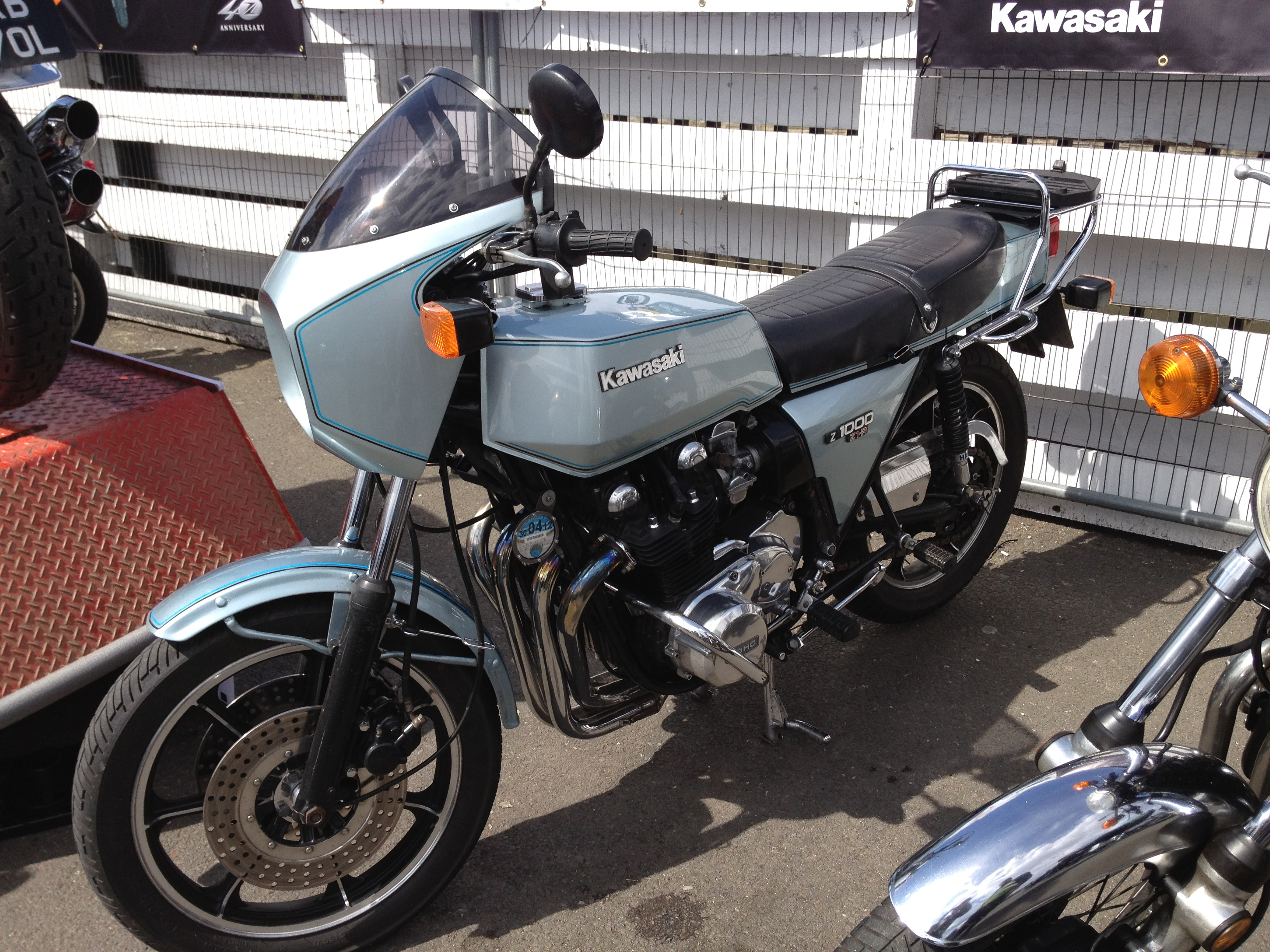 Late 1970's Japanese 4 cylinder 1000cc motorcycle designed by America's Wayne Moulton as a 'sports-tourer' for the USA market.